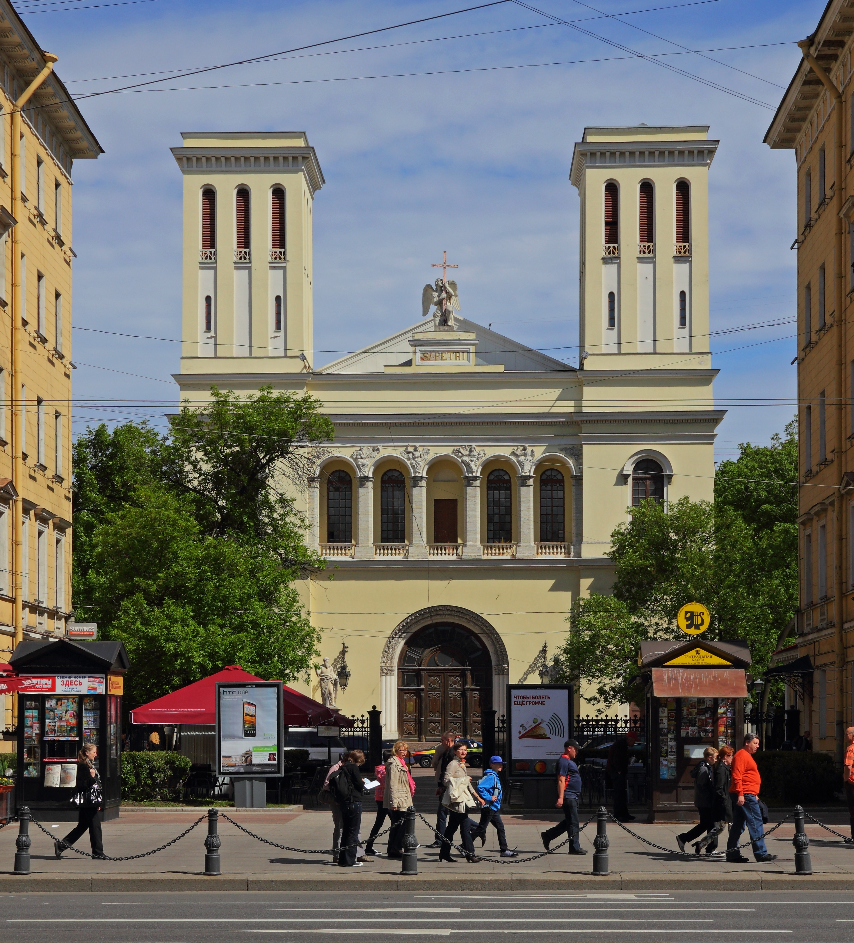 Saint Petersburg, Russia. Nevsky Avenue. Lutheran St. Peter Church (Petrikirche).